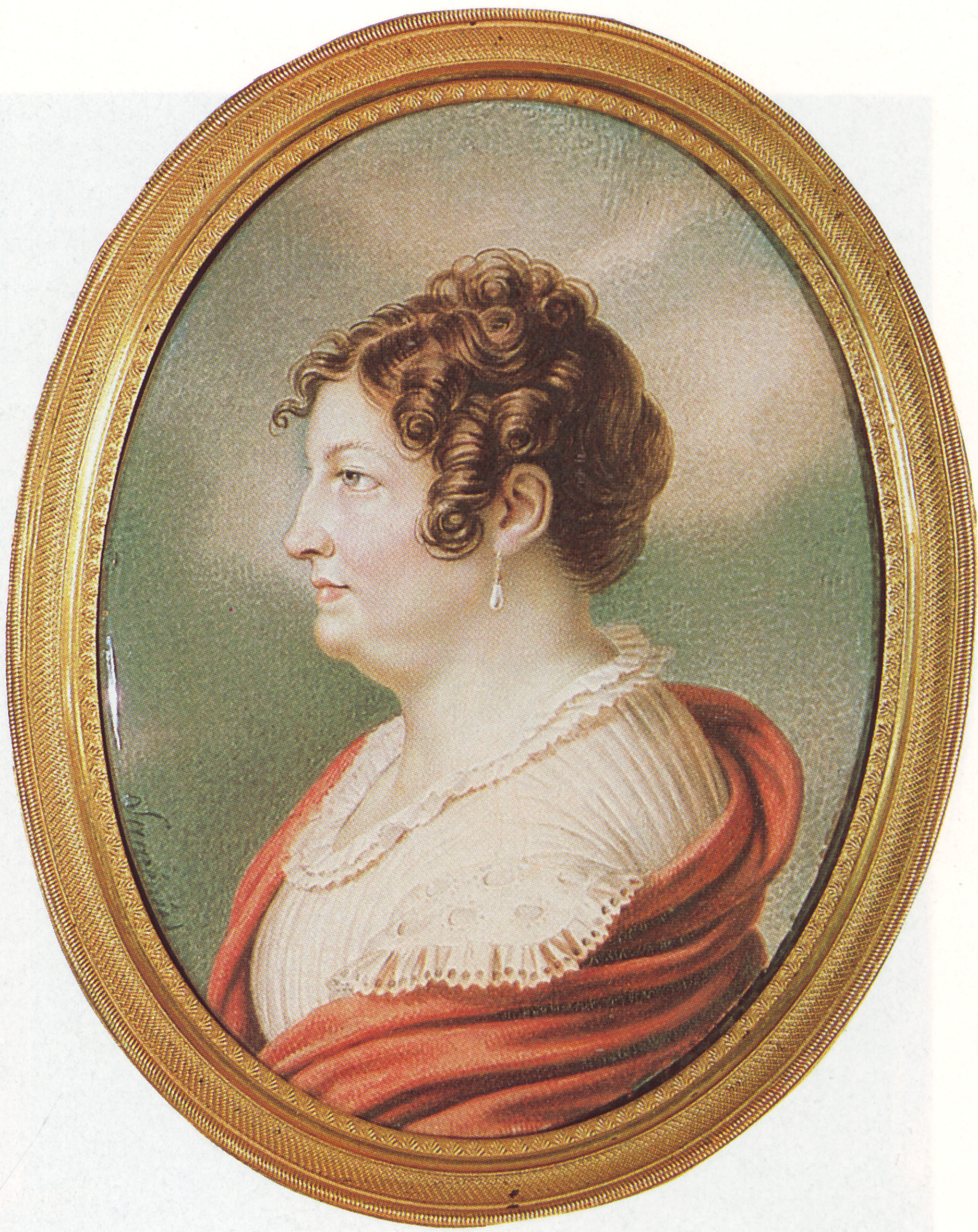 Portrait of Maria Alexeevna Naryshkina